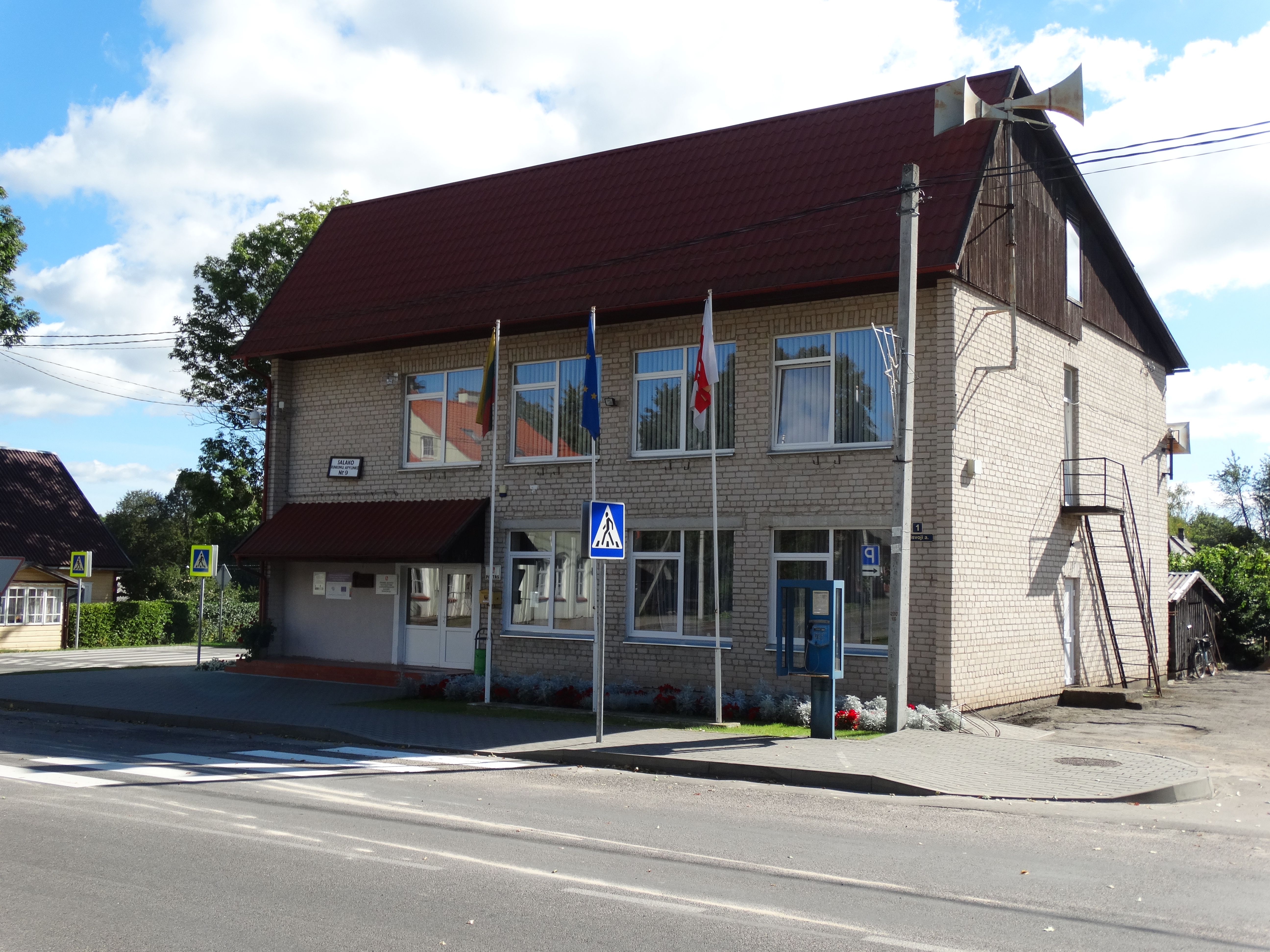 Eldership, Salakas, Zarasai District, Lithuania